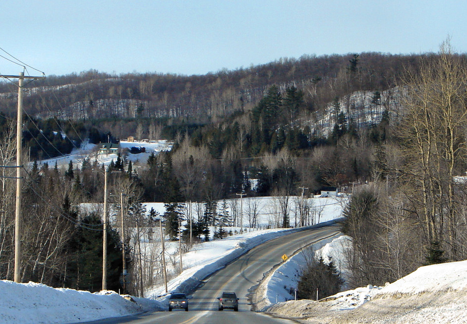 Valley of the Du Lièvre River in L'Ange-Gardien, Outaouais, Quebec